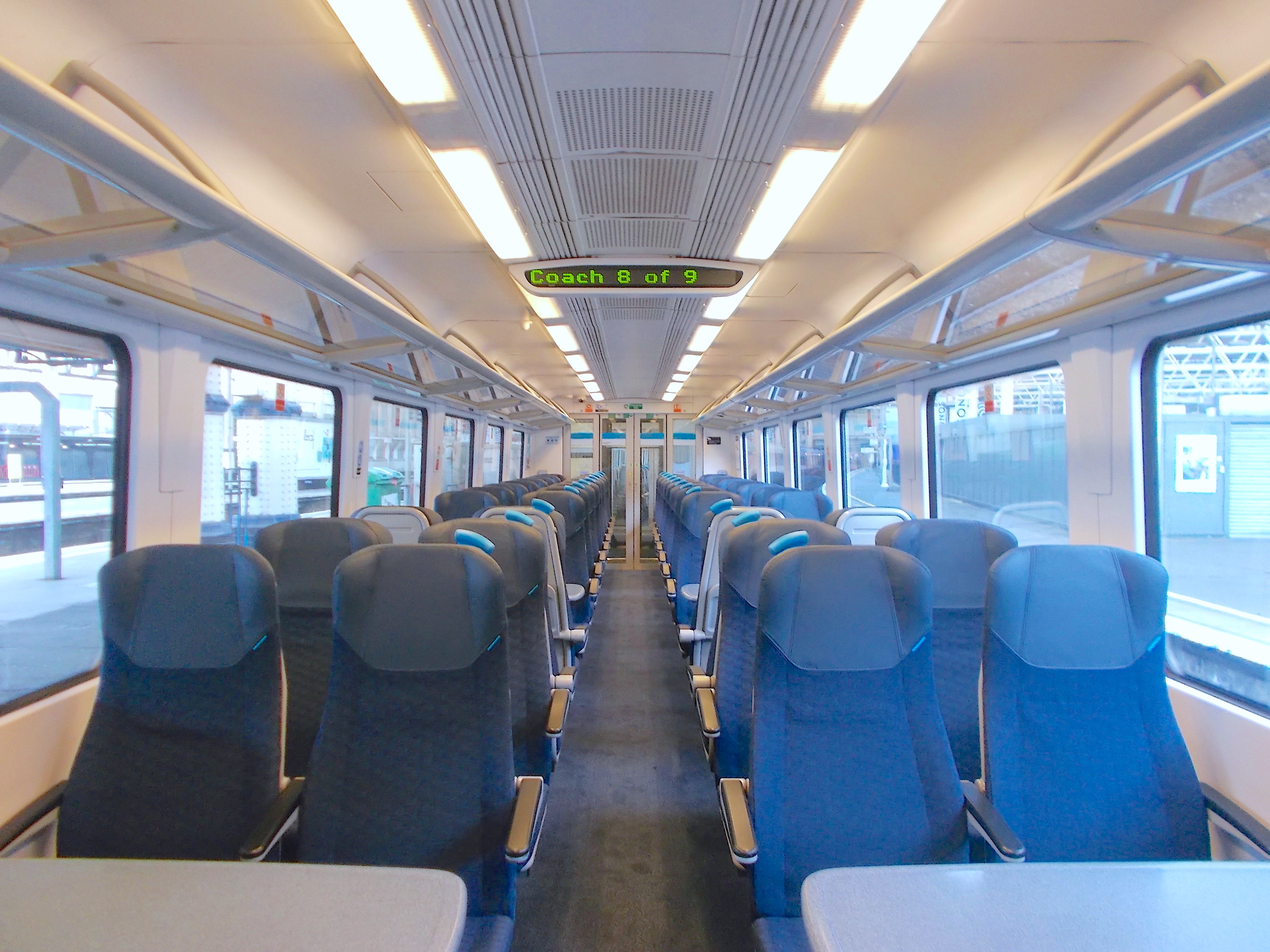 The interior of refurbished Standard Class accommodation aboard a South Western Railway Siemens Class 444 Desiro EMU Train